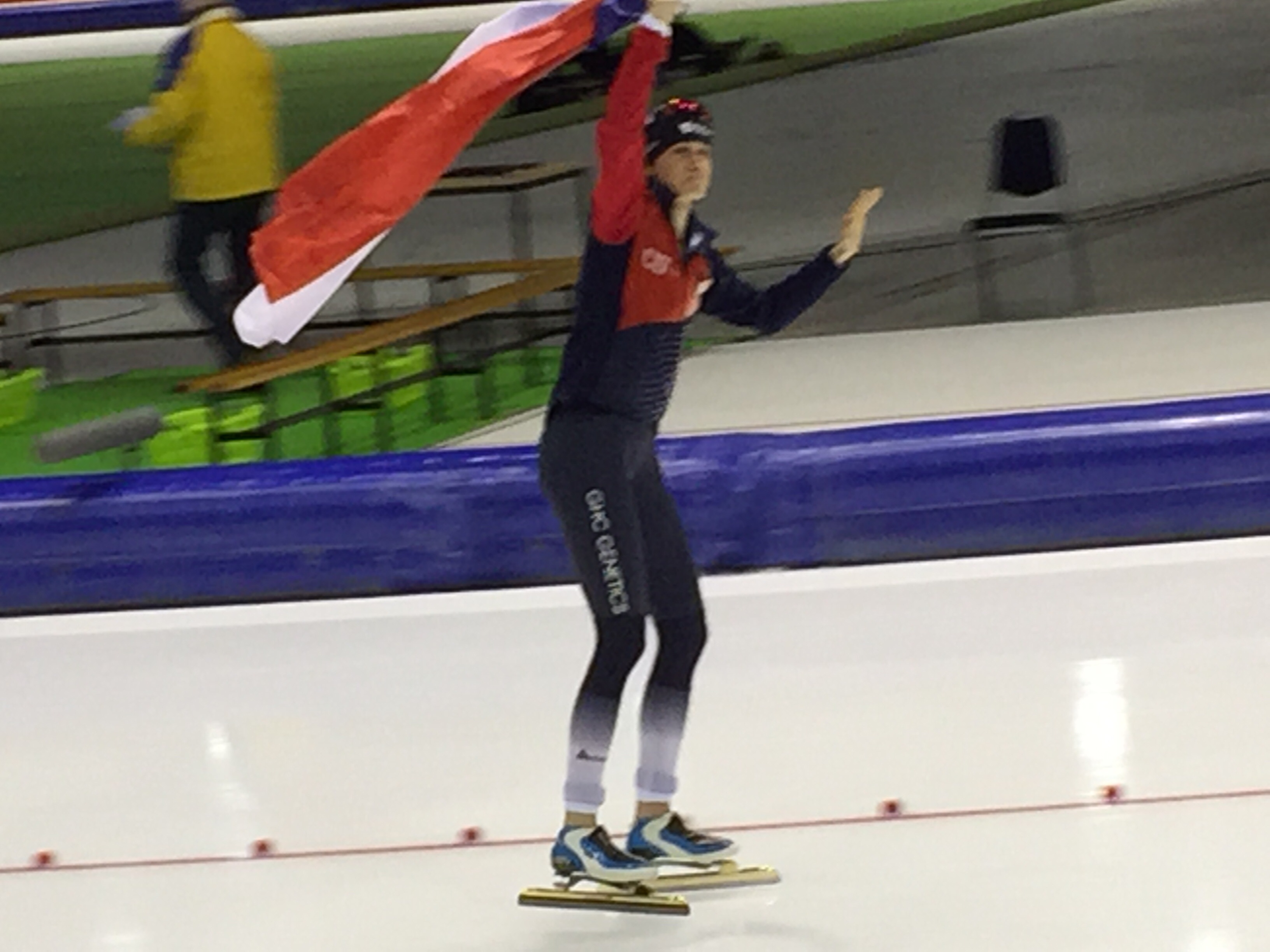 2015 World Single Distance Speed Skating Championships, Women's 5000m